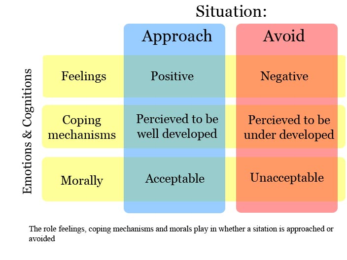 How emotions and cognitions influence approach or avoidance.